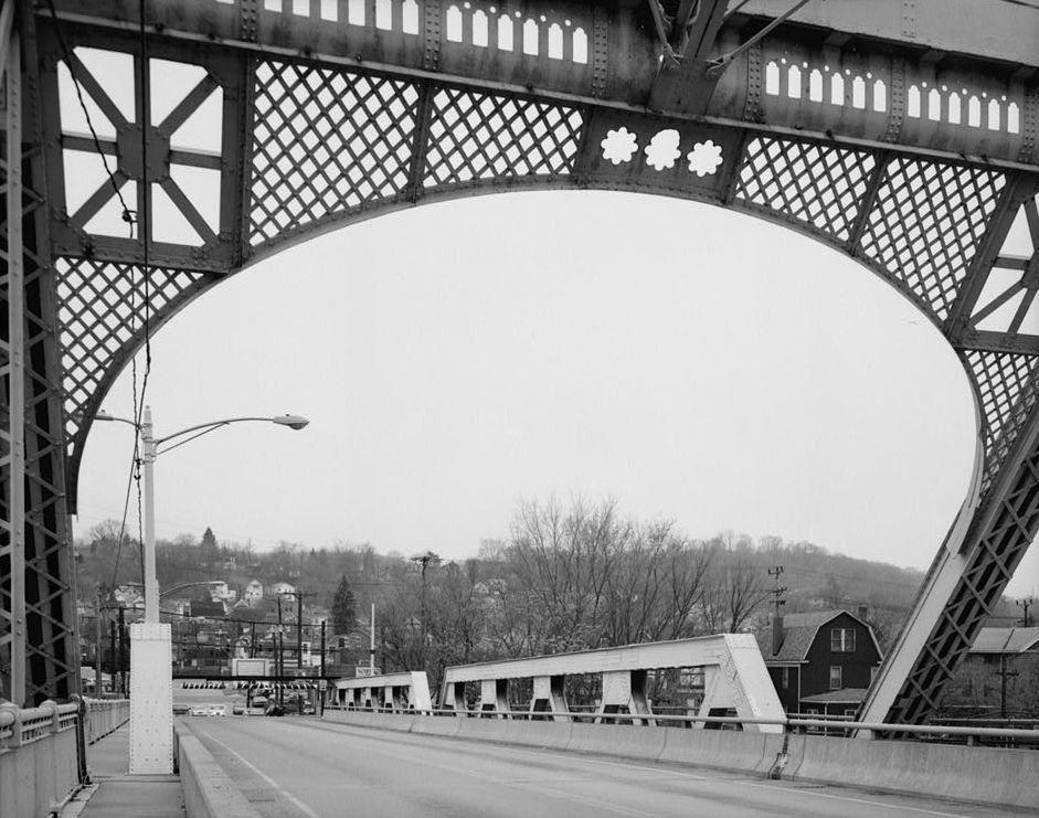 HAER PA,2-CORA,1-12 Photographer: (Views 1-27) Robert C. Shelley P.A.C. Spero & Company April 1989 PA-217-12 INTERIOR, PONY TRUSSES, VIEWED THROUGH SOUTH PORTAL, FROM NORTHEAST Coraopolis Bridge image, newer pony trusses in background, filigree work and decorative mesh of arched openings in foreground. Built up compression girder members at side, and tierod bracing also visible at top of arch, retrieved from Historic American Engineering Record